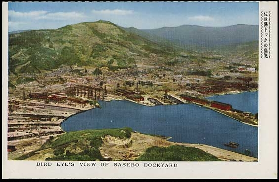 Japanese postcard showing the Sasebo Dockyard